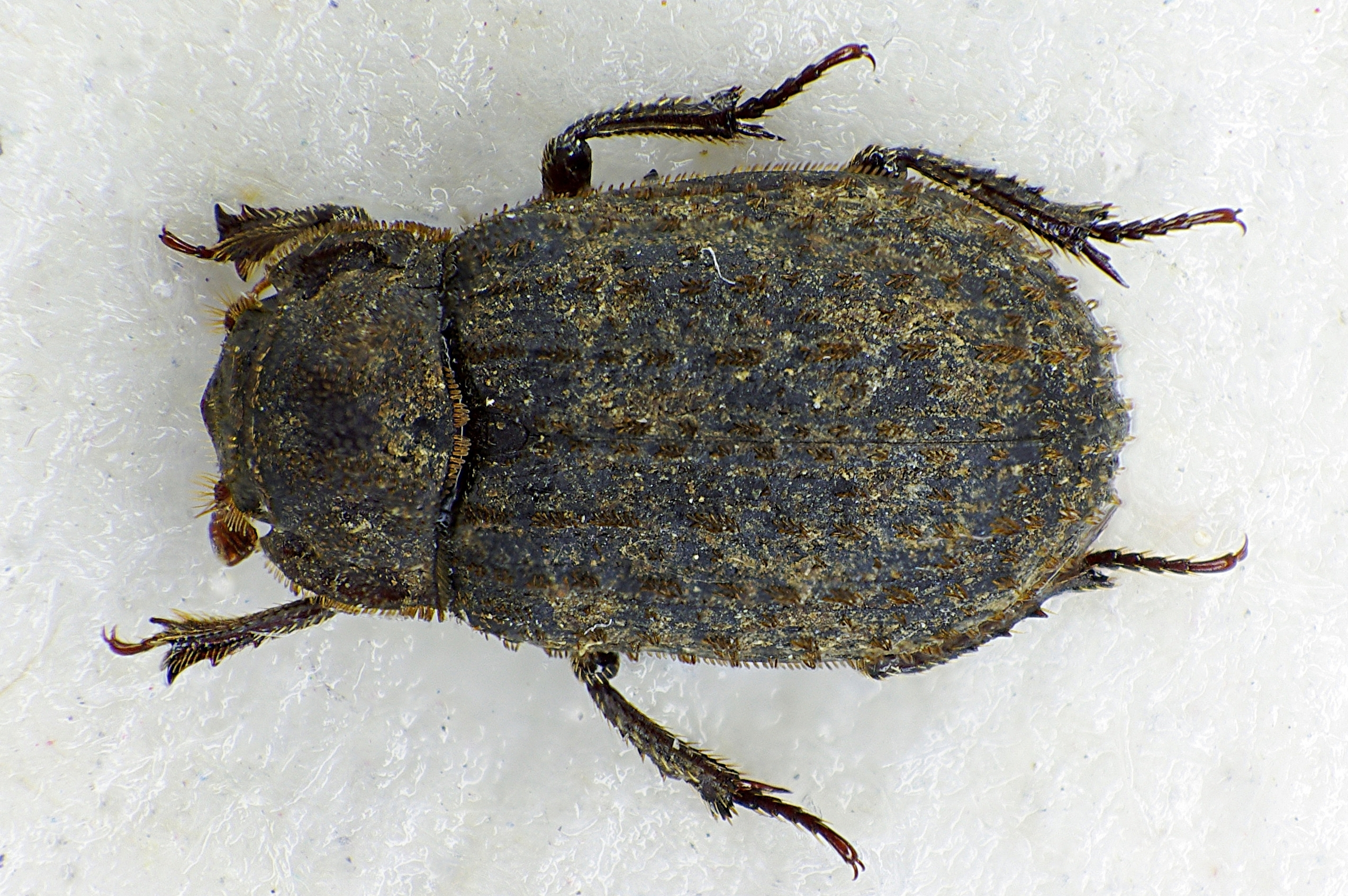 Trox scaber